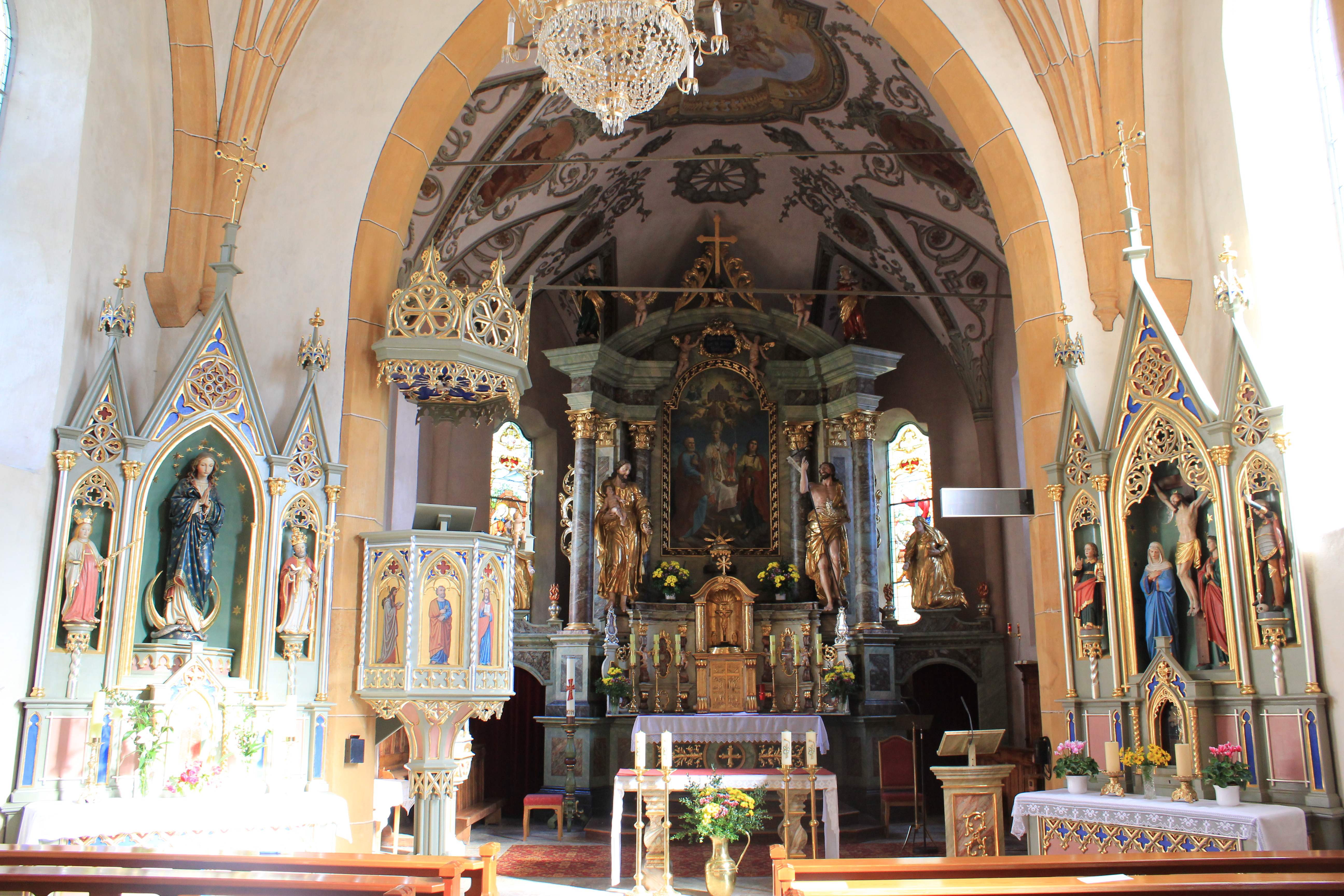 Saint-Niclaus-church in Liesing in the community Lesachtal - Interior